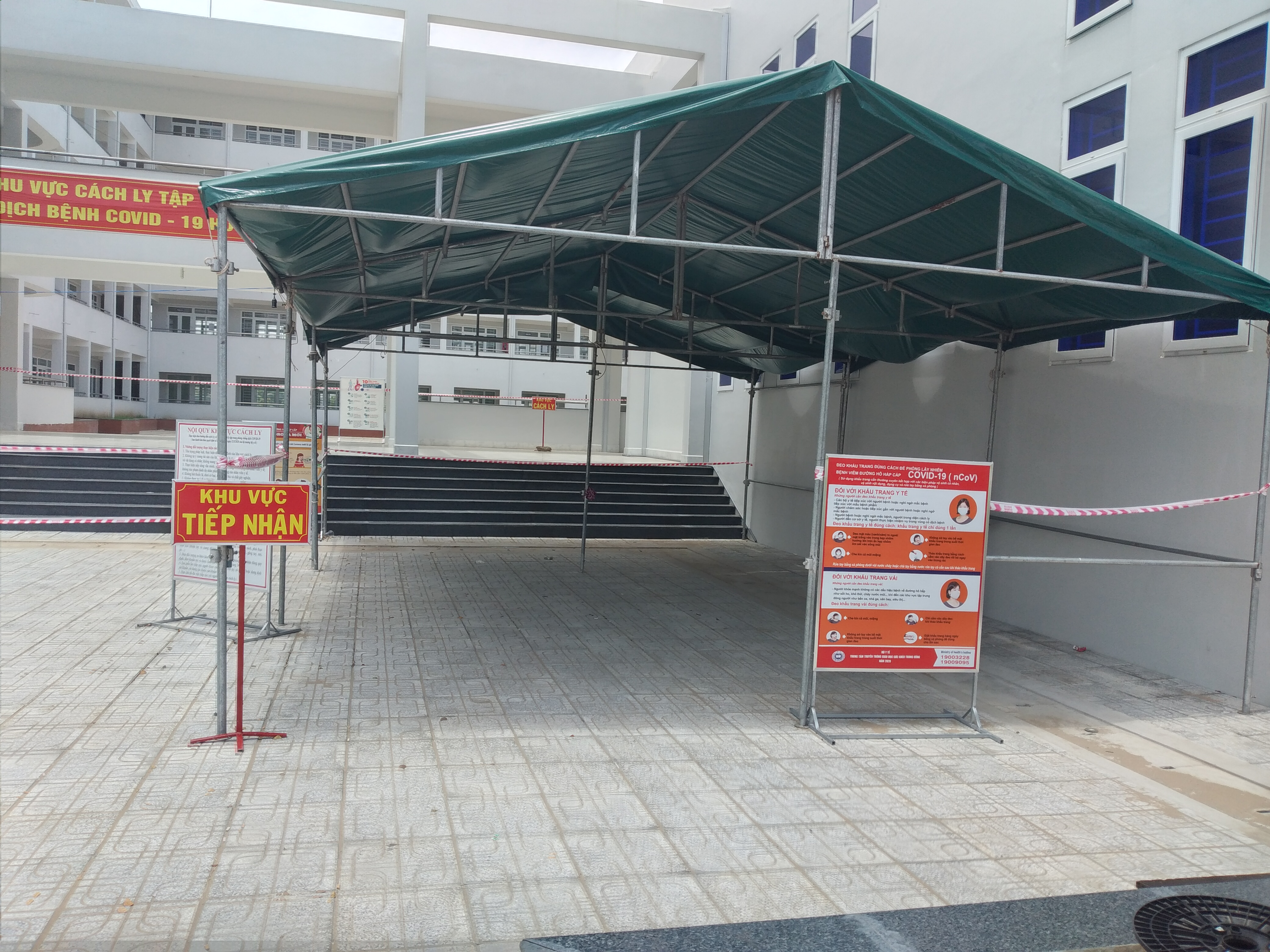 Quarantine camp in Vietnam